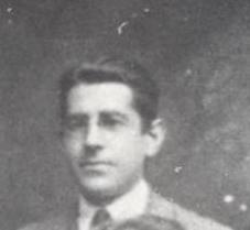 Chavdar Mutafov, Zlatorog, 1925-1927.